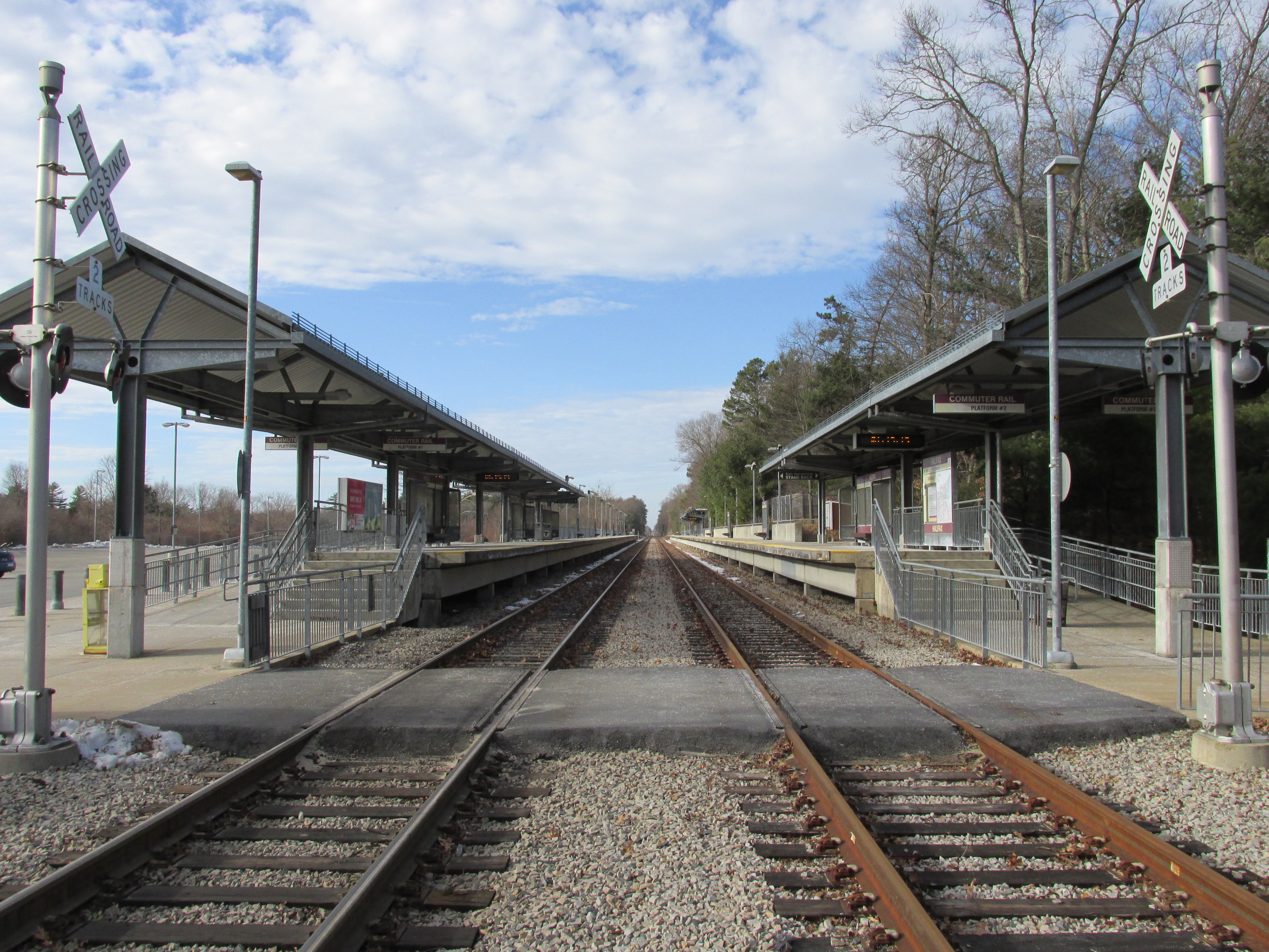 Halifax MBTA station, Halifax Massachusetts